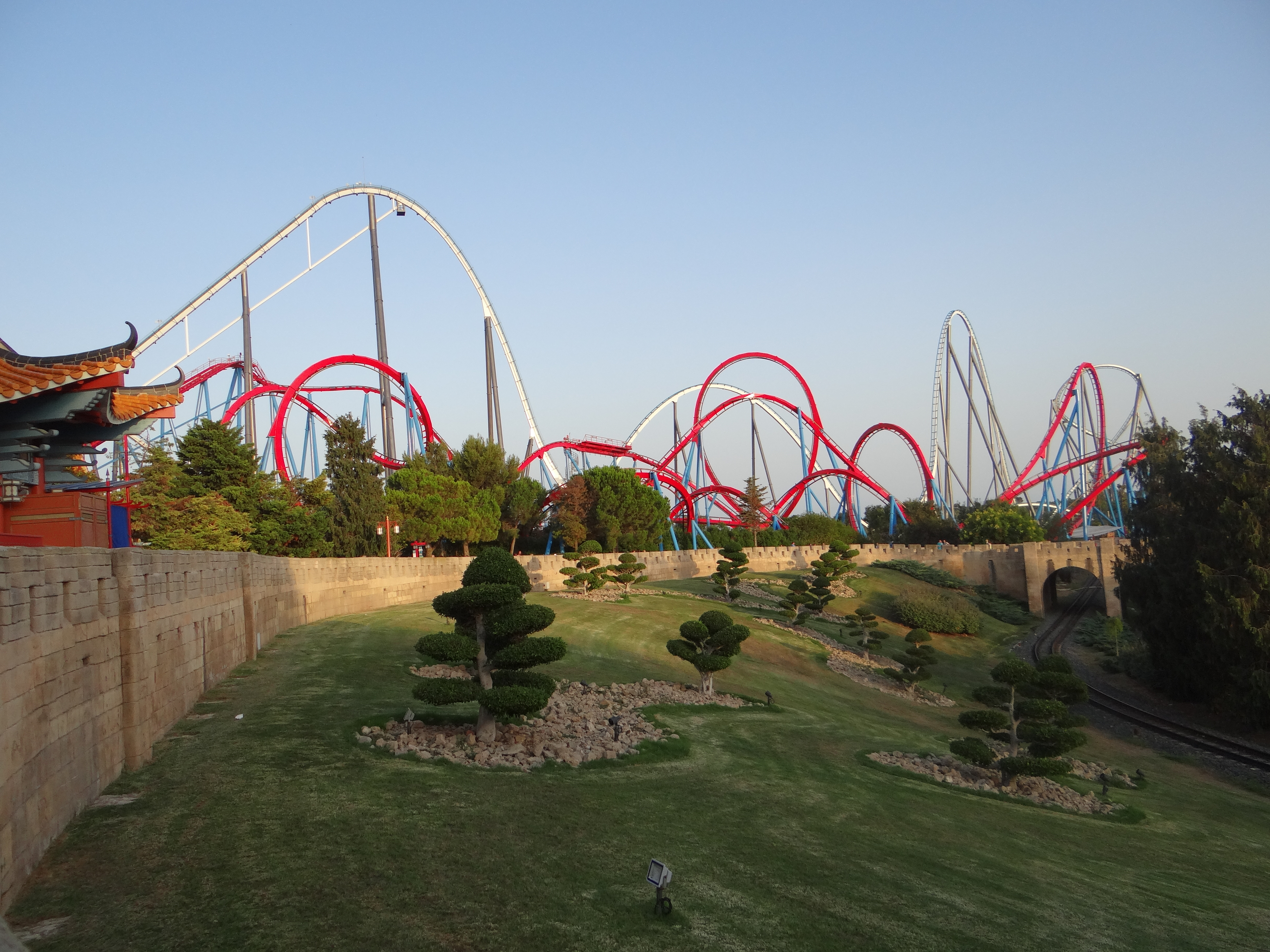 Most famous coasters in Port Aventura